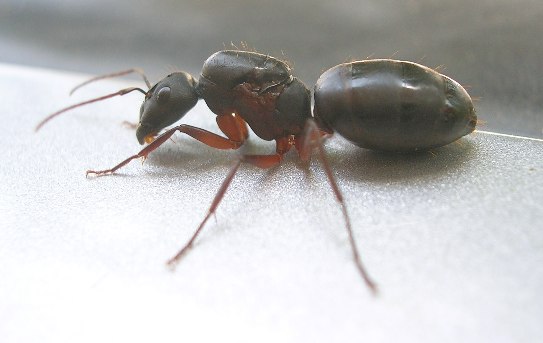 Dealated queen probably of a Camponotus. Bangalore, India, April 21, 2007